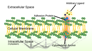 I created this image myself using Fireworks MX 2004